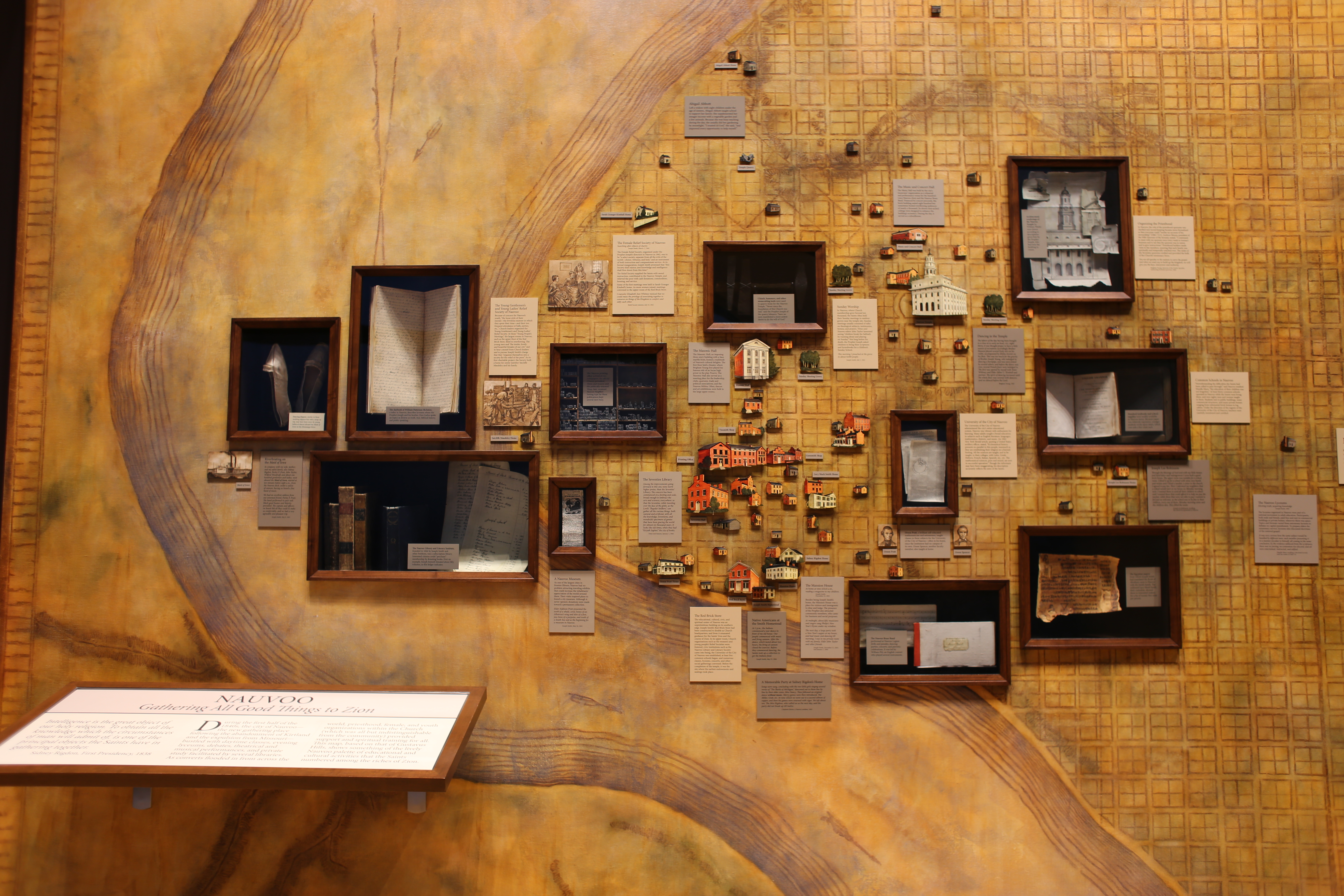 Detail of the the Nauvoo, IL, exhibit area.